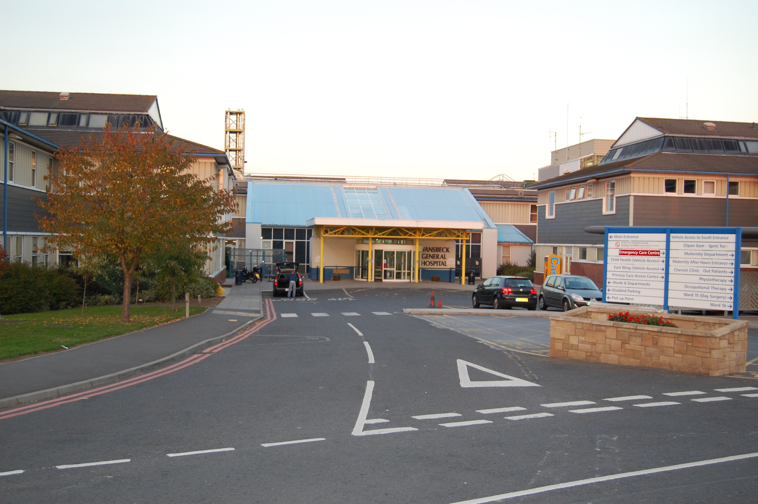 Wansbeck General Hospital, located in Ashington, Northumberland, North East England, United Kingdom: main entrance.